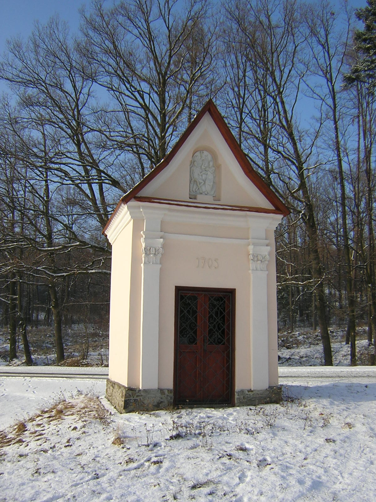 Most Holy Trinity Chapel near Děrné, Czechia.